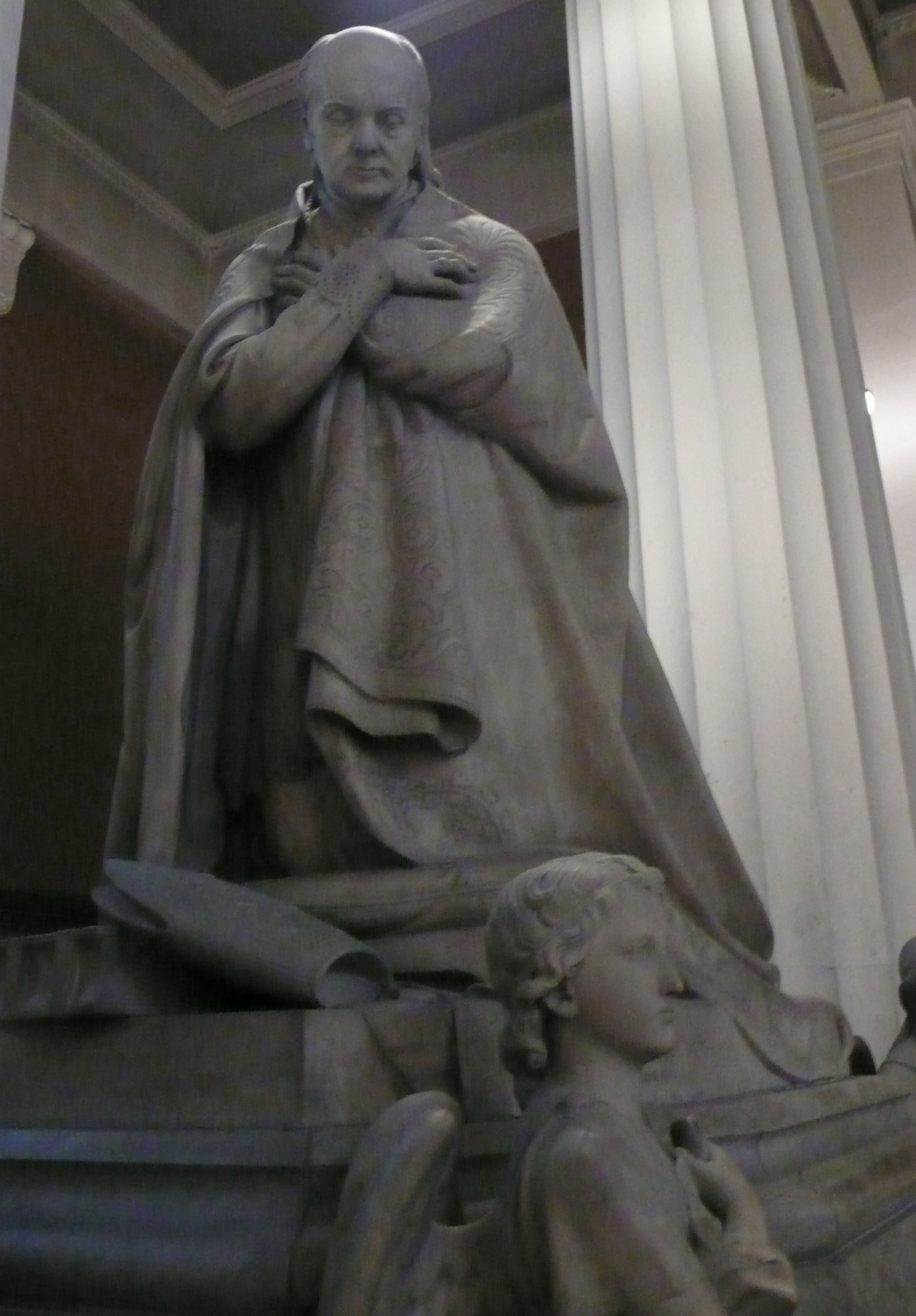 Daniel Murray (bishop) at Pro-Cathedral, Dublin